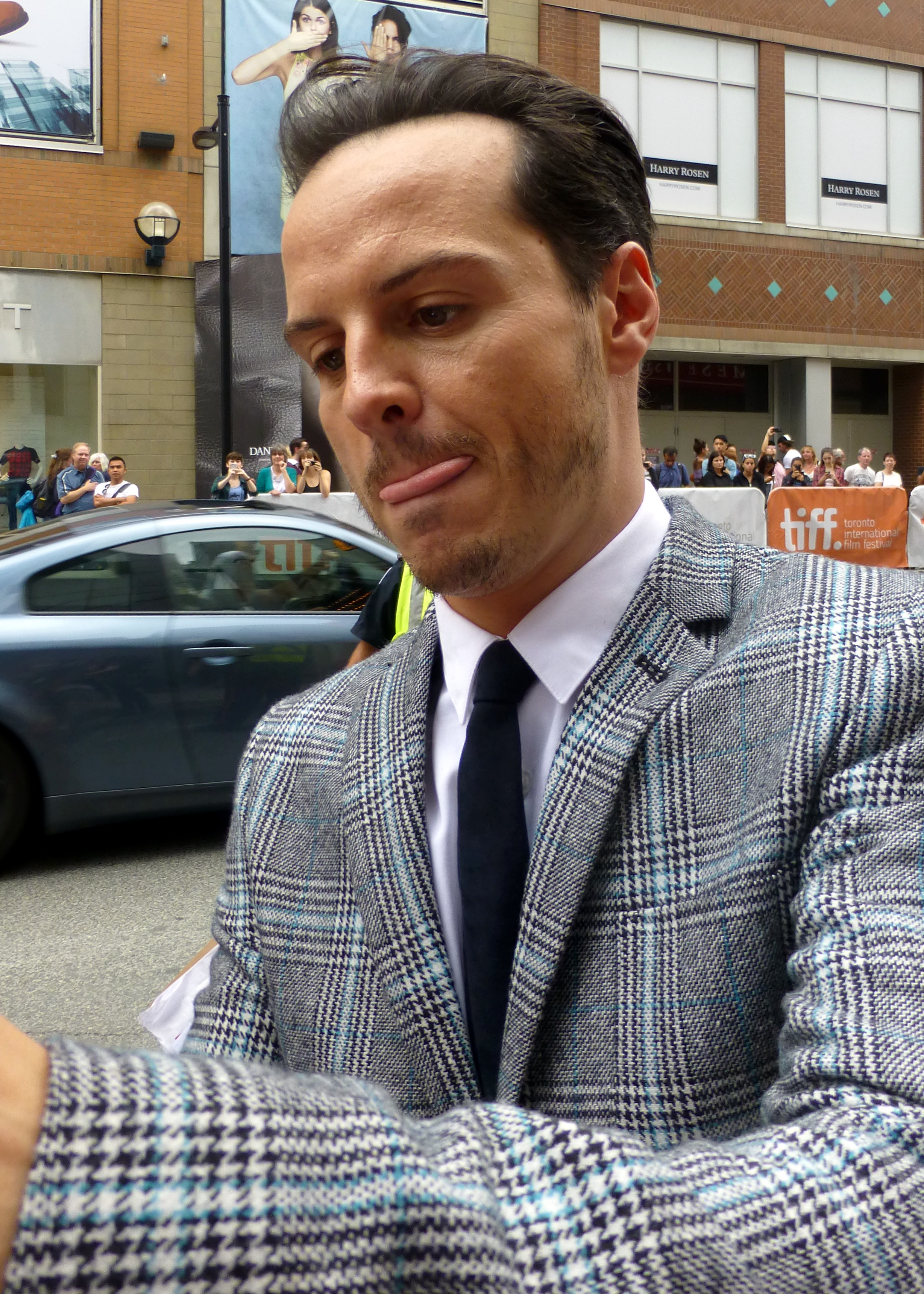 Tongue shot. Andrew Scott at the premiere of Pride, 2014 Toronto Film Festival